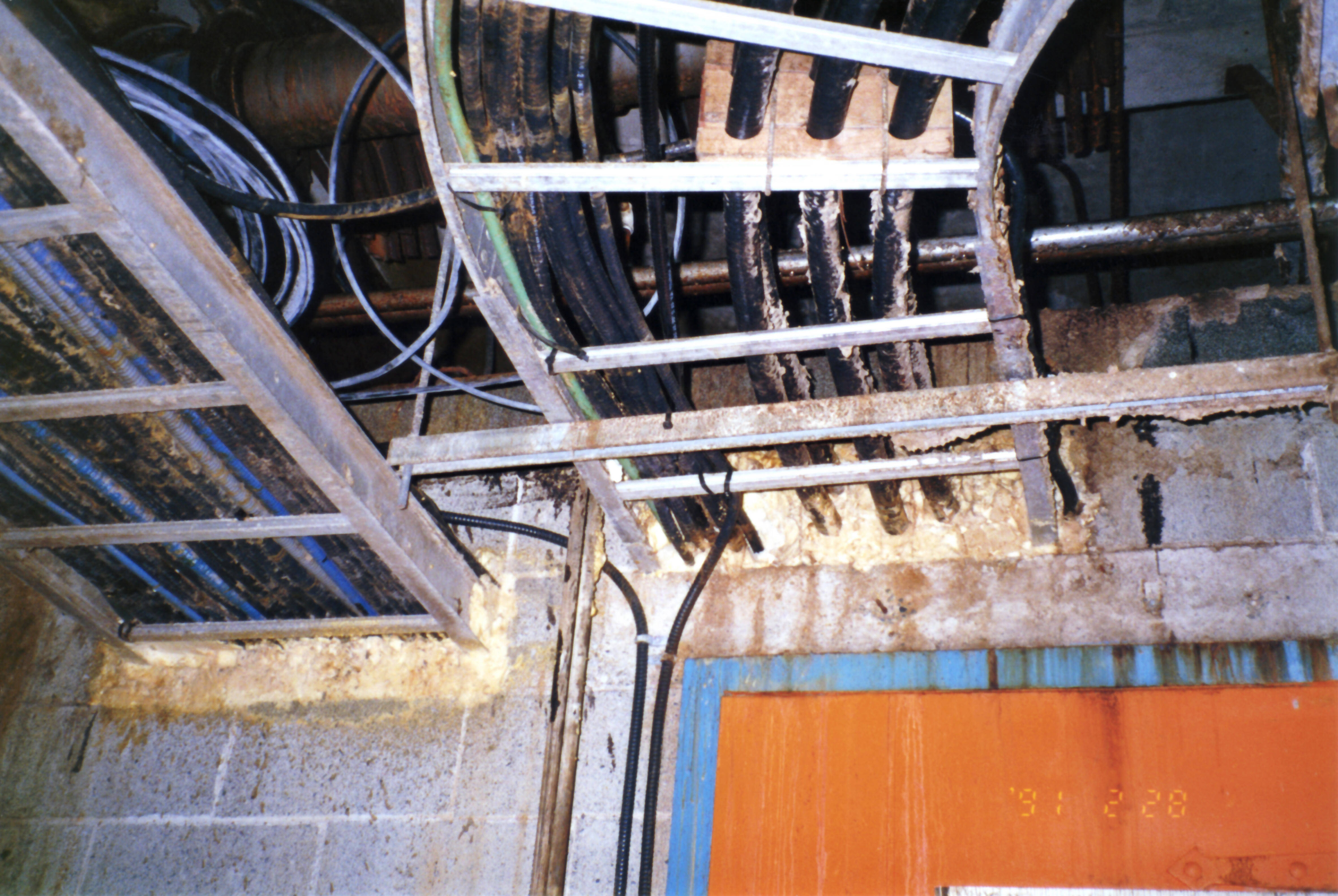 Polyurethane foam used illegally in a Canadian pulp and paper mill, in a cable tray through-penetration in a wall surrounding a service room, which is required to have a fire-resistance rating. Instead of this, there should be a proper firestop, where the installed configuration is bounded by an appropriate certification listing. An example would be a firestop mortar. The rating of this wall was ZERO at the time this picture was taken, resulting in a code violation.